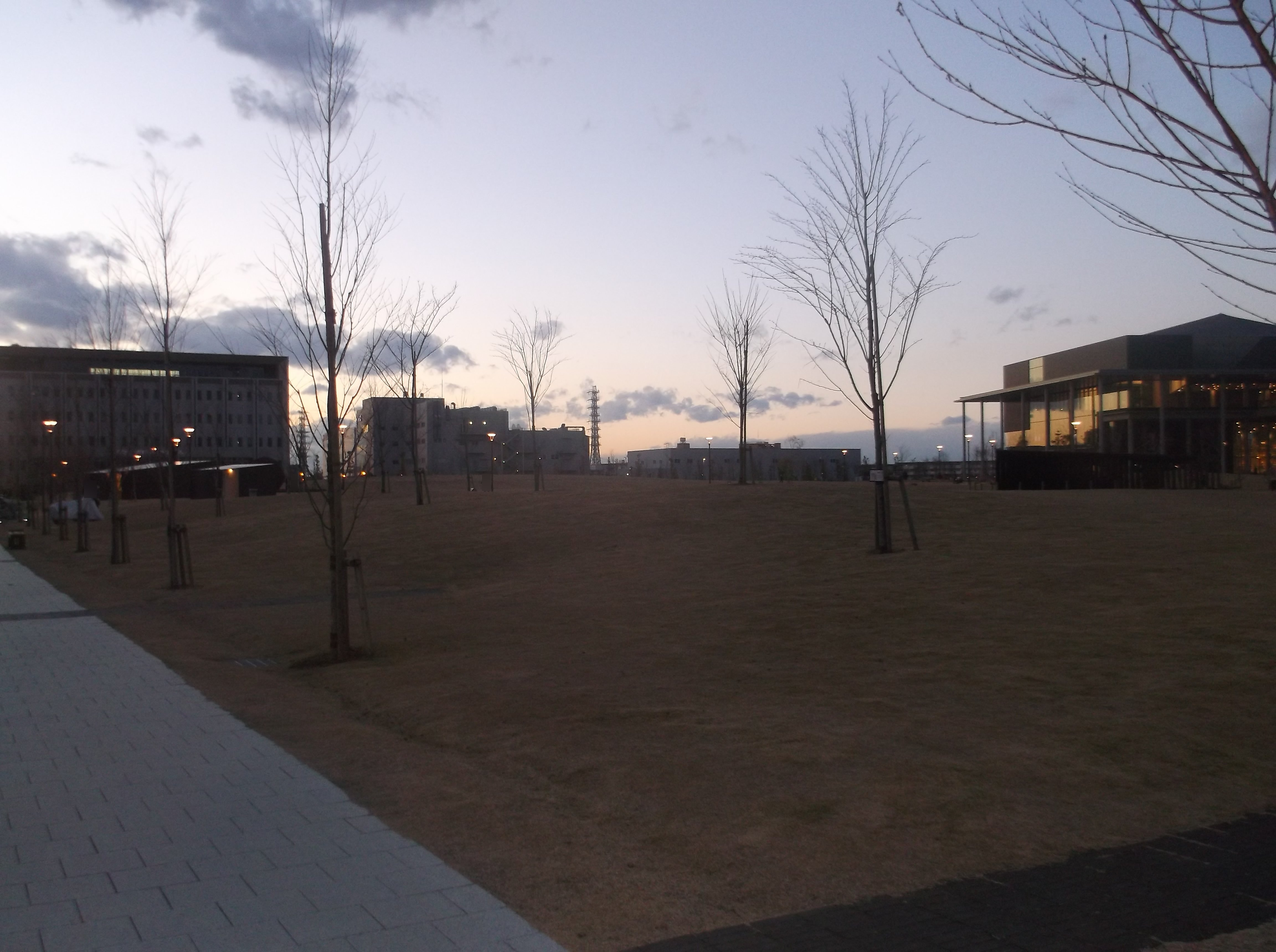 A photo of an overview of Katsushika Niijuku Future Park,Niijuku,Katsushika-ku,Tokyo,Japan.